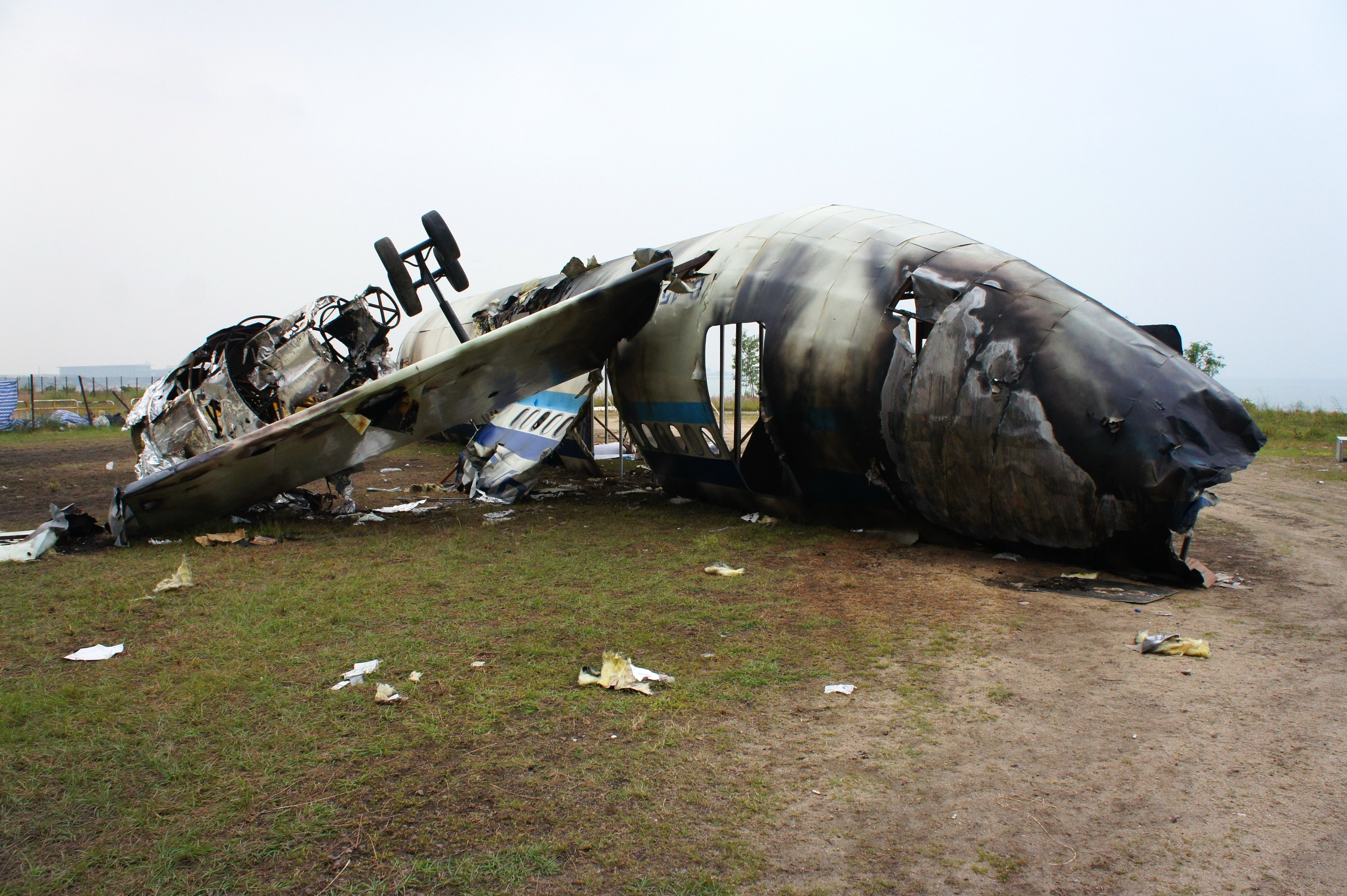 An airplane props used in the Elite Brigade, episode 2, Radio Television Hong Kong.